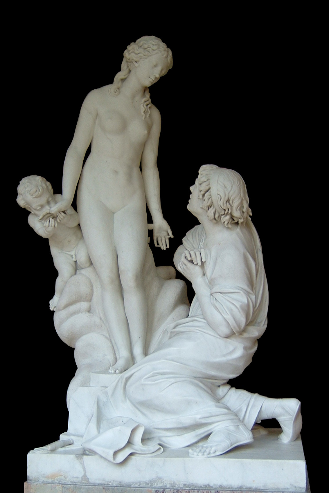 Étienne Maurice Falconet: Pygmalion & Galatee (1763) Hermitage, photography by abakharev, April 2006